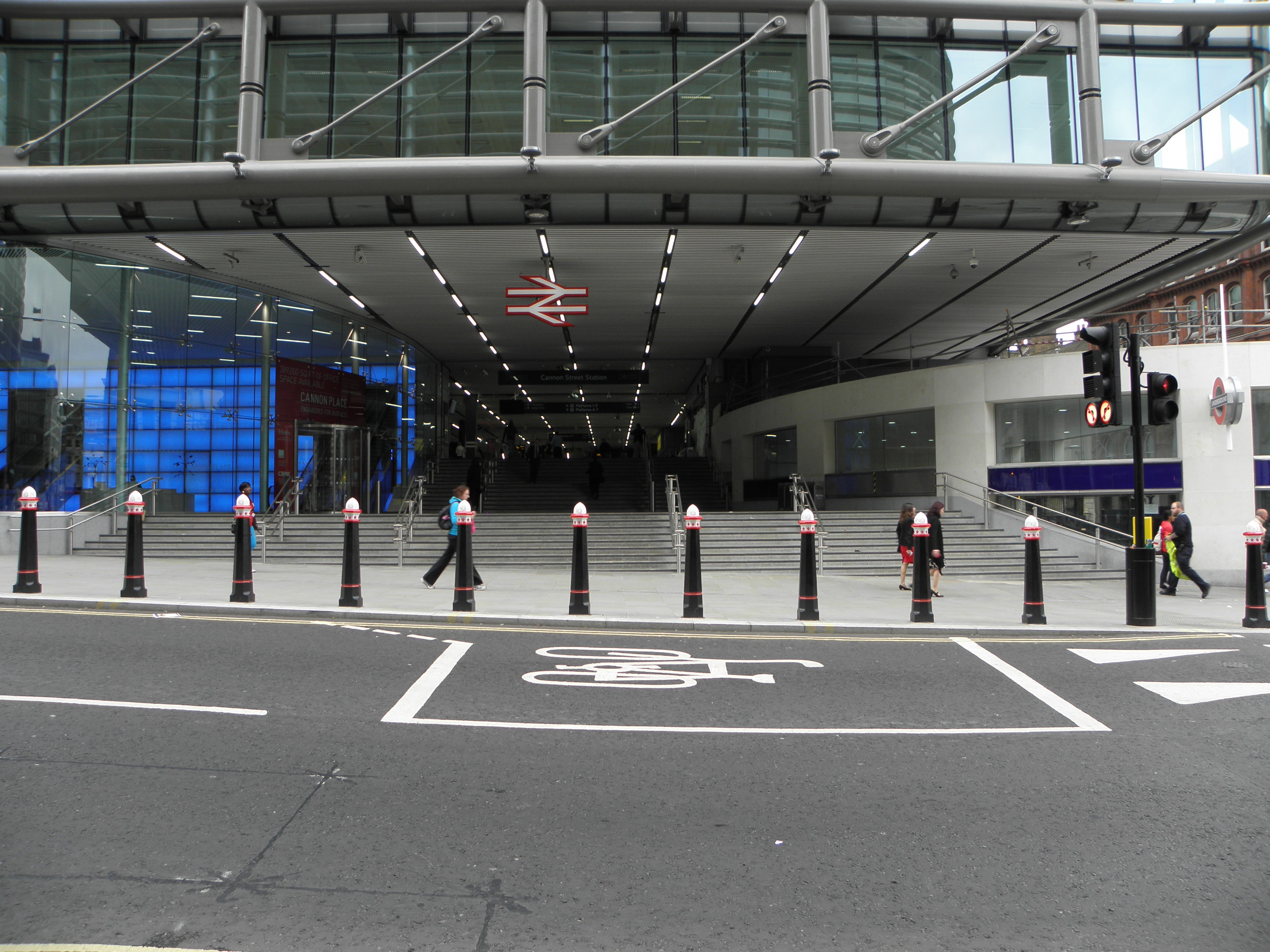 Cannon Street railway station new entrance, opened in 2011, round the corner from the new entrance to the Tube station.